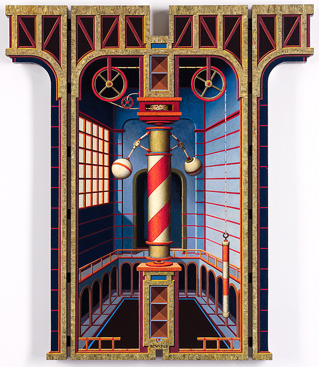 Richard Whitten, "Gouverneur de Vapeur" (Steam Engine governor), Oil on Wood Panel, 27" x 23.5" 2019